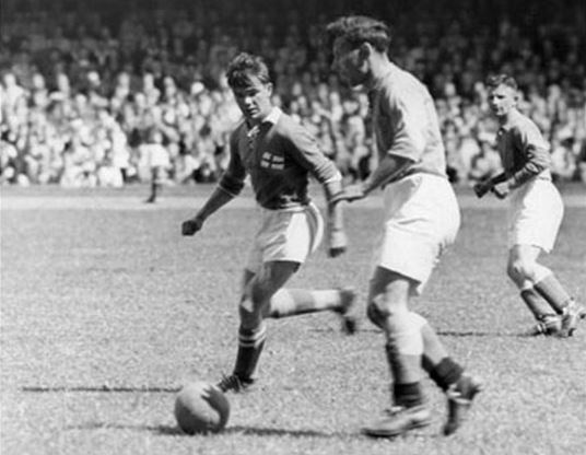 Aulis Rytkönen (left) and Abe Lenstra. Finland vs, Netherlands, 11 June 1950, Helsinki Olympic Stadium.